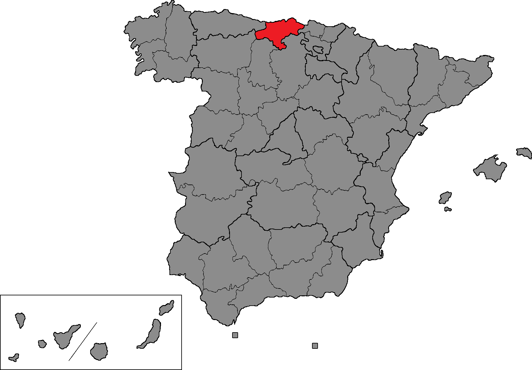 Spanish Congress of Deputies district of Cantabria.